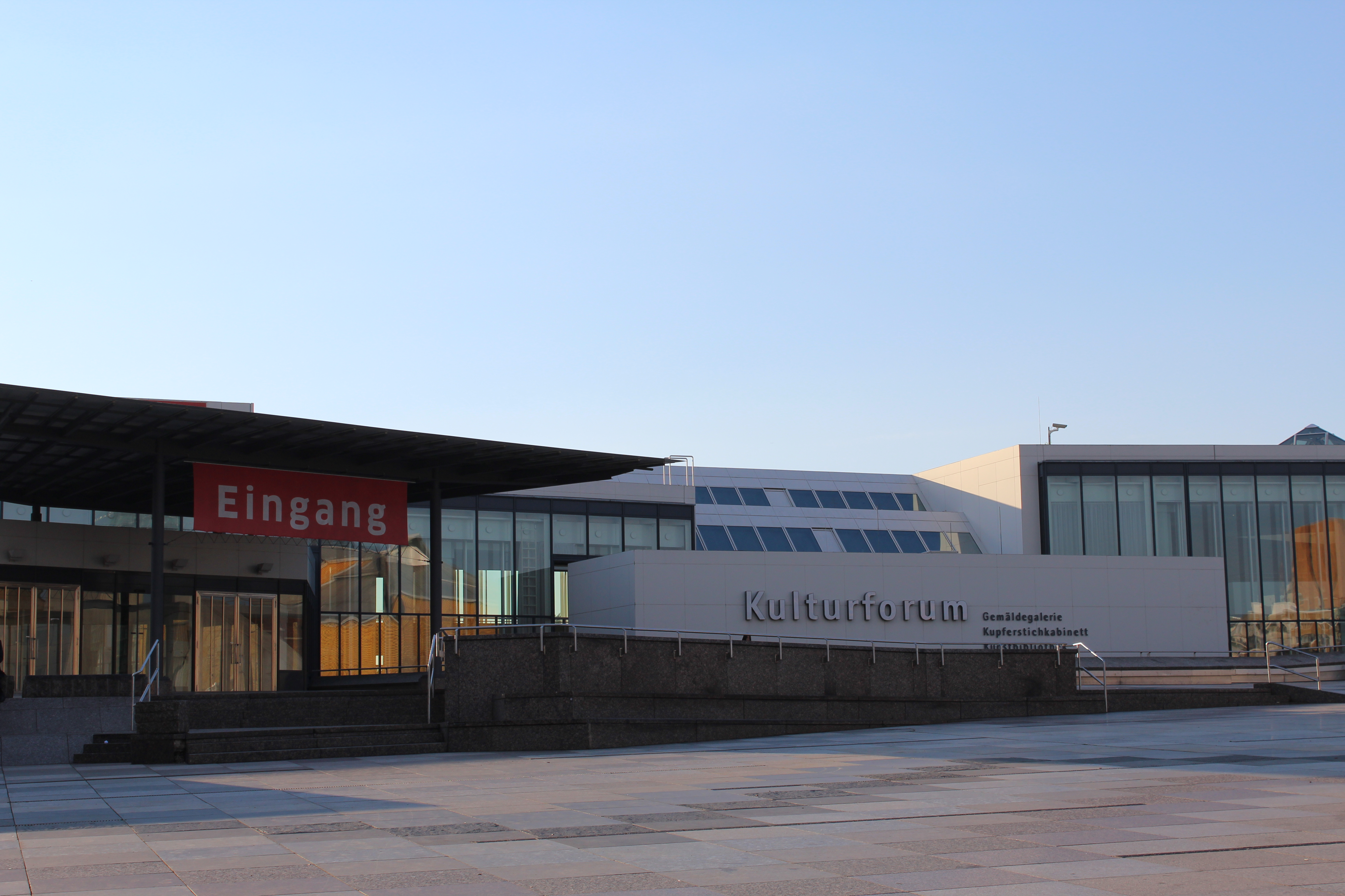 Berlin, Germany: Kulturforum (museums)